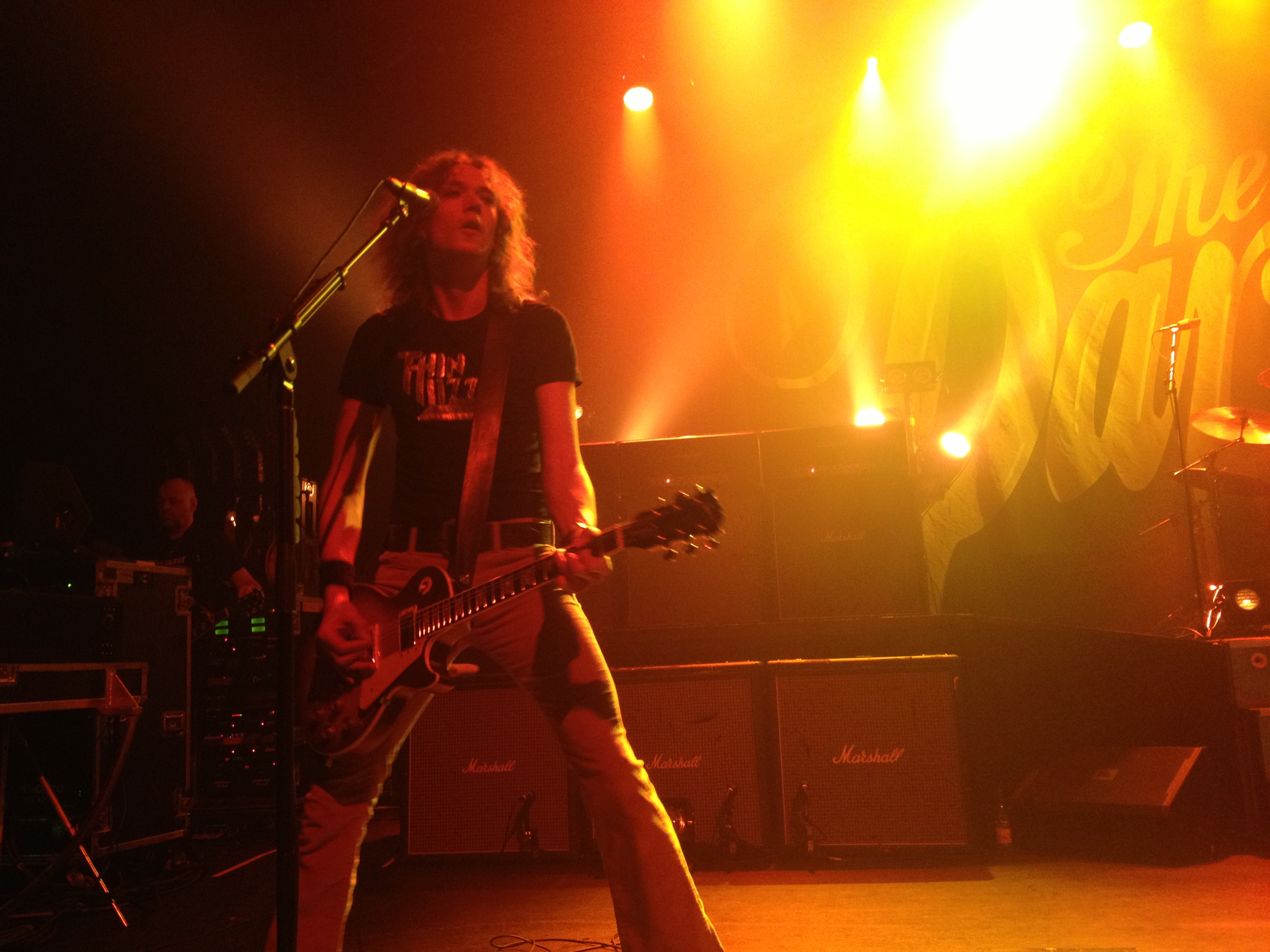 Dan Hawkins live with The Darkness at Tyrol, Stockholm, Sweden. 17th February 2013.